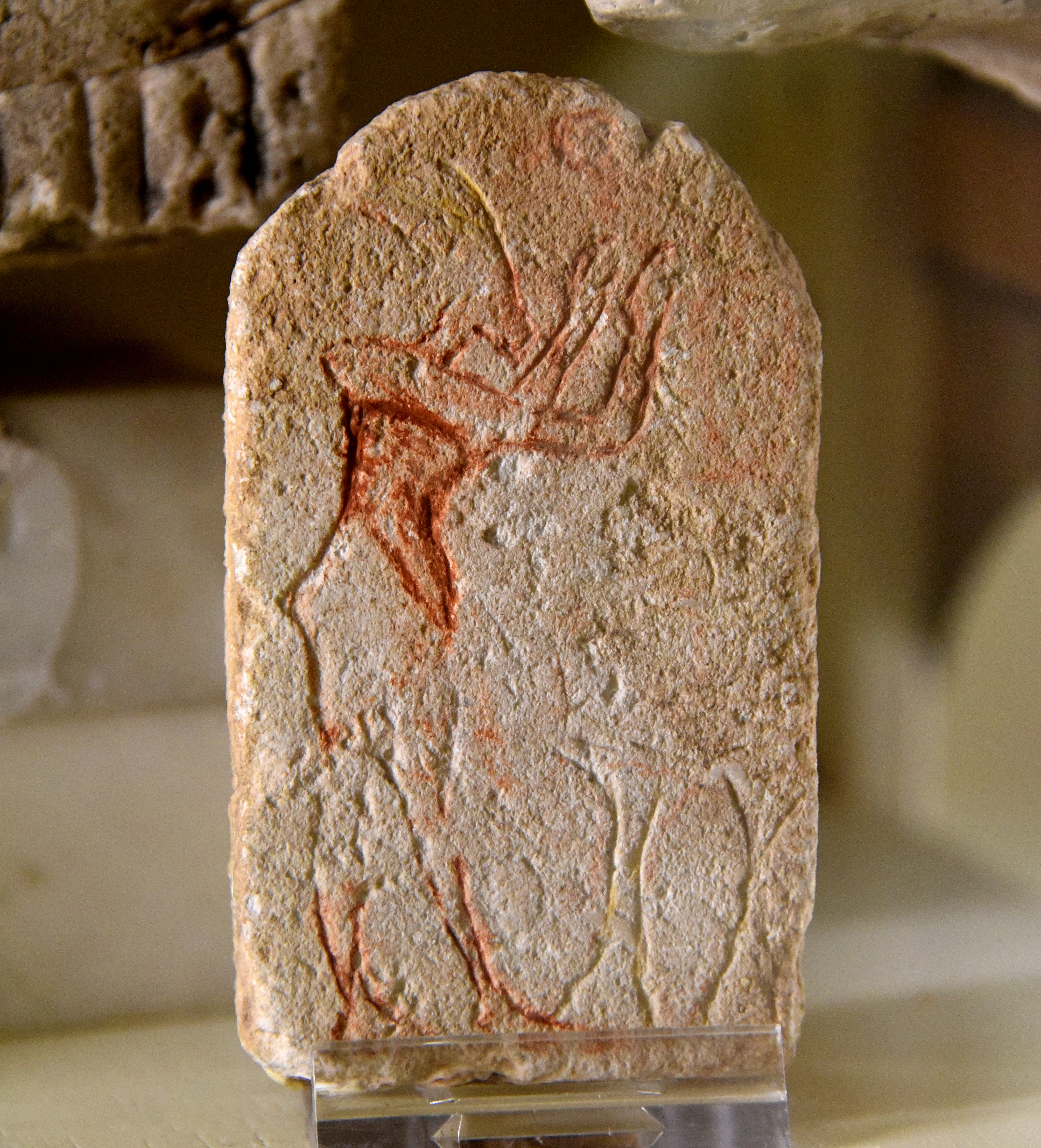 Painted limestone miniature stela. It shows Akhenaten standing before 2 incense stands, Aten disc above. Crudely incised. From Amarna, Egypt. 18th Dynasty.The Petrie Museum of Egyptian Archaeology, London. With thanks to the Petrie Museum of Egyptian Archaeology, UCL.